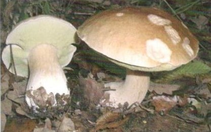 Mushrooms Boletus Edulis